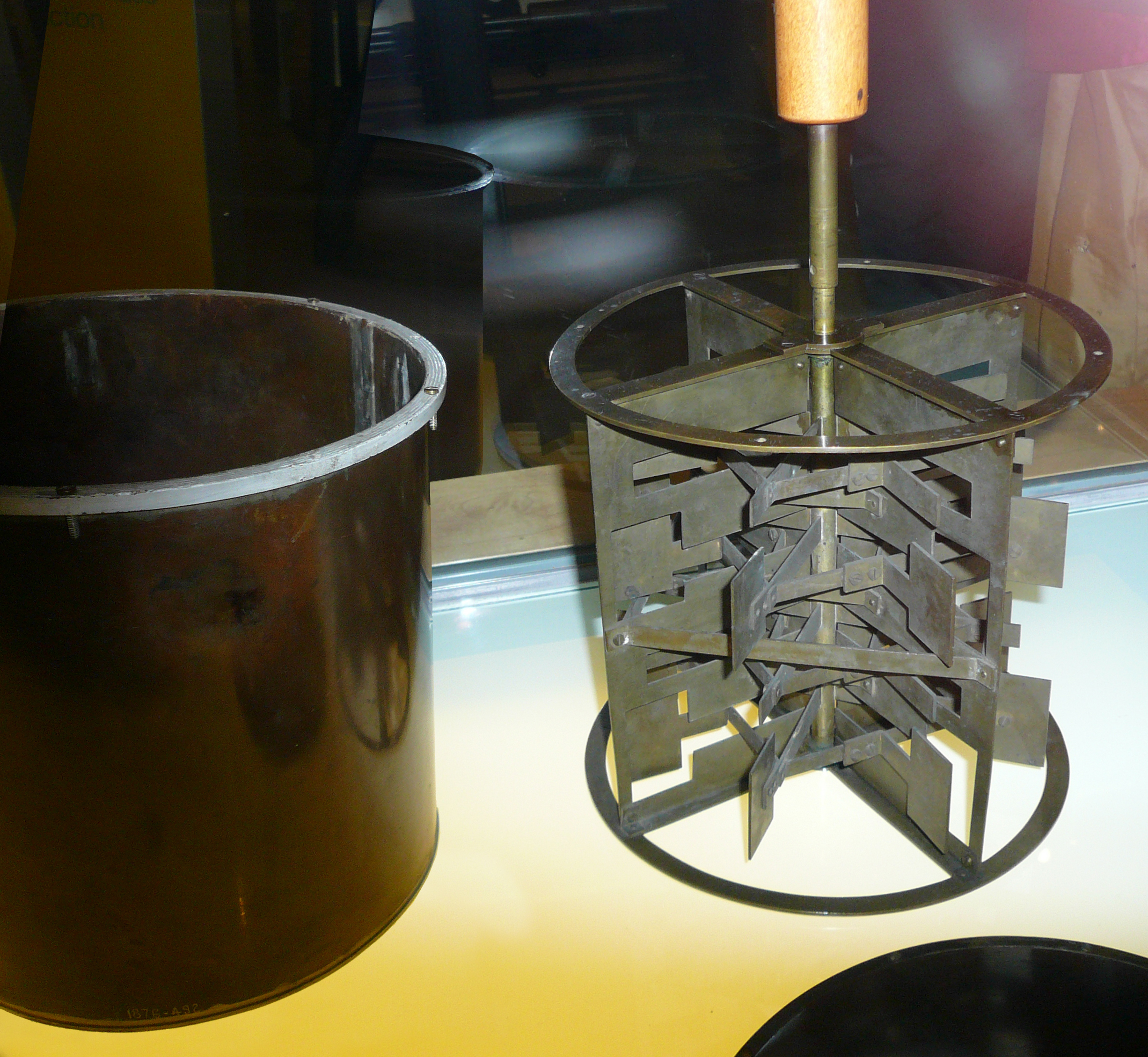 Apparatus of James P. Joule for the measurement of the mechanical equivalent of heat.